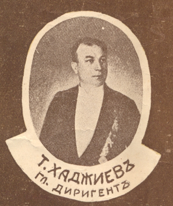 Portrait of the Bulgarian composer and conductor Todor Hadzhiev on a poster "Bulgarian scenic art 1900-1932"